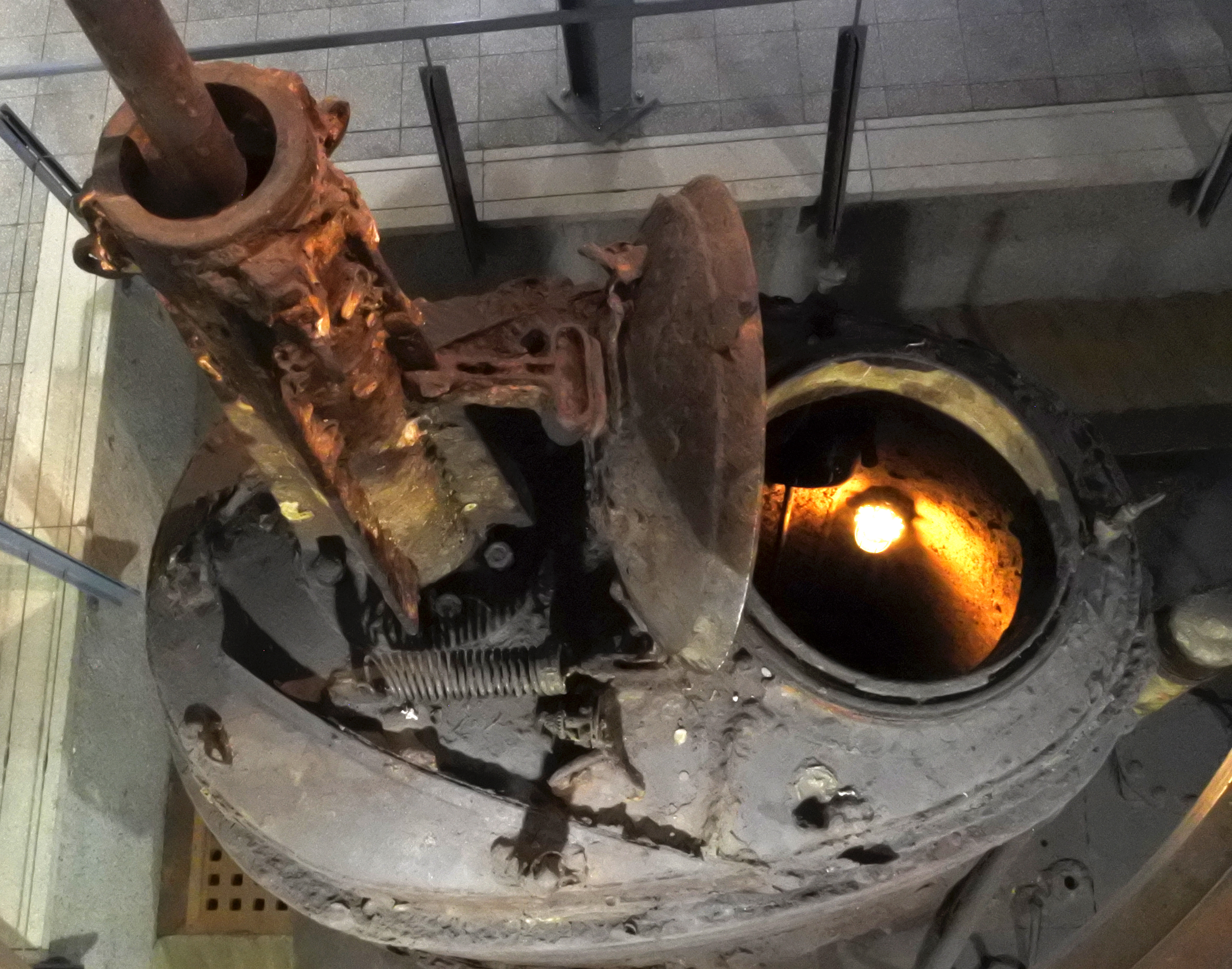 Details of SM U-20 conning tower in Vienna military museum.